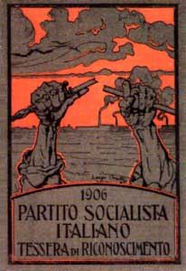 Partito Socialista Italiano membership card 1906